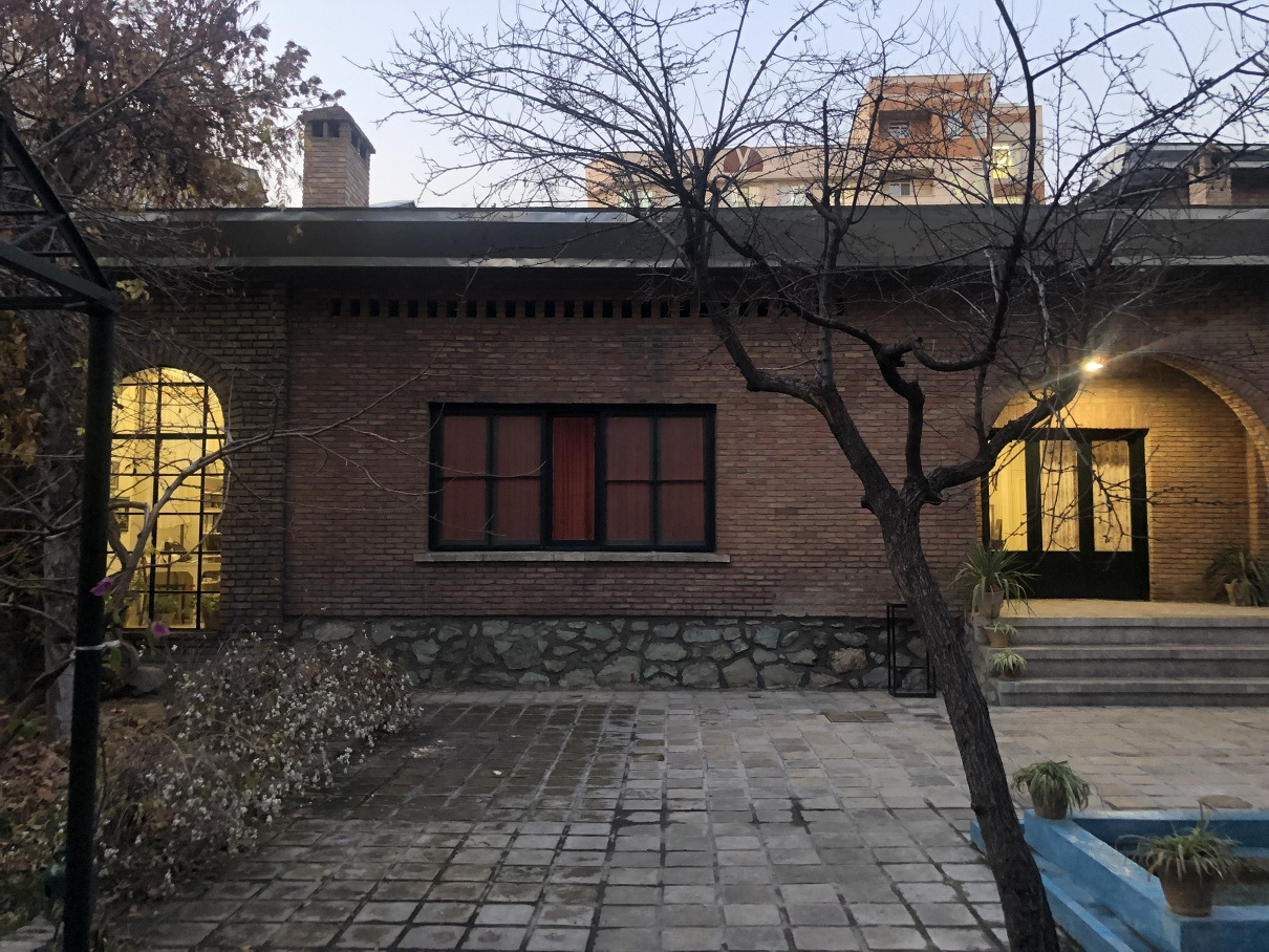 Simin & Jalal Museum House